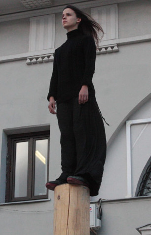 Olya Kroytor - Russian artist. 2014